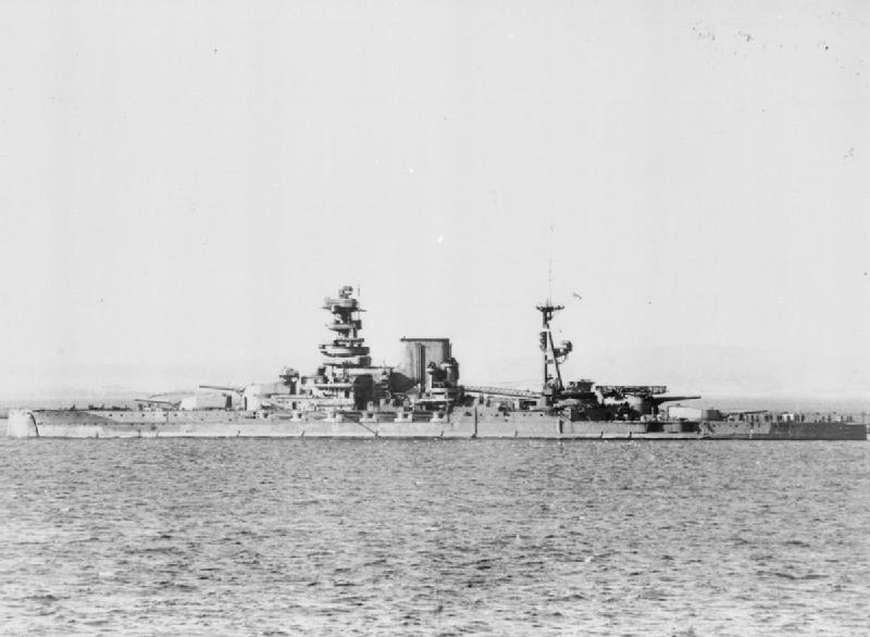 HMS Barham Underway off Devonport.